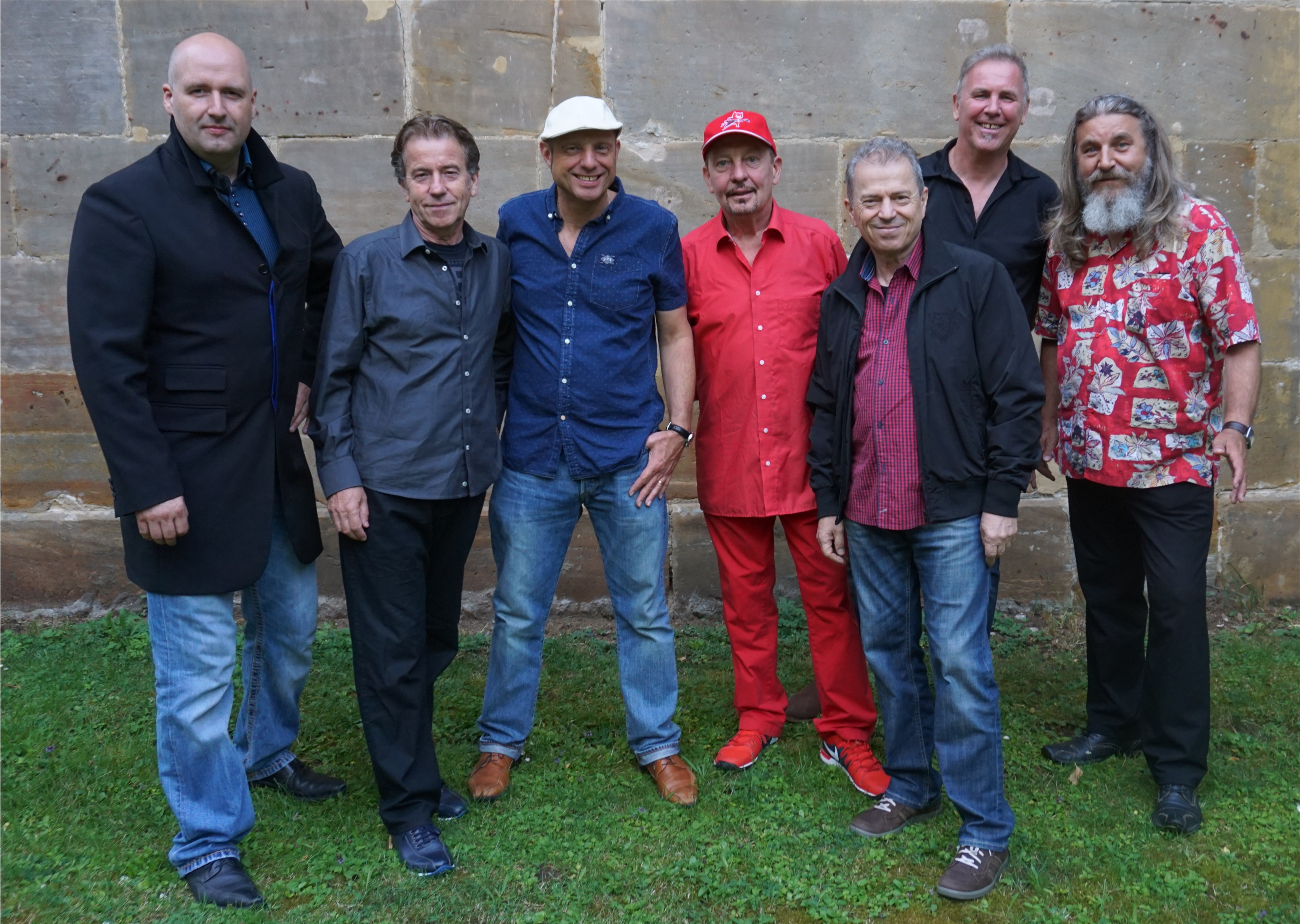 Spider Murphy Gang